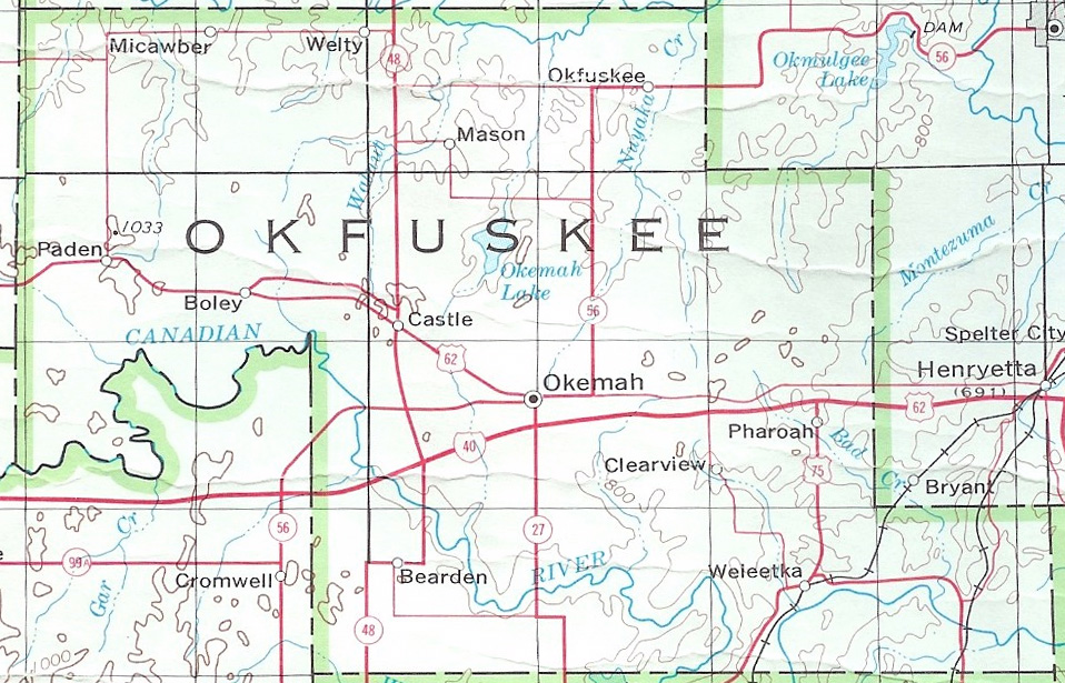 Map of Okfuskee County, central Oklahoma. as of 1972.